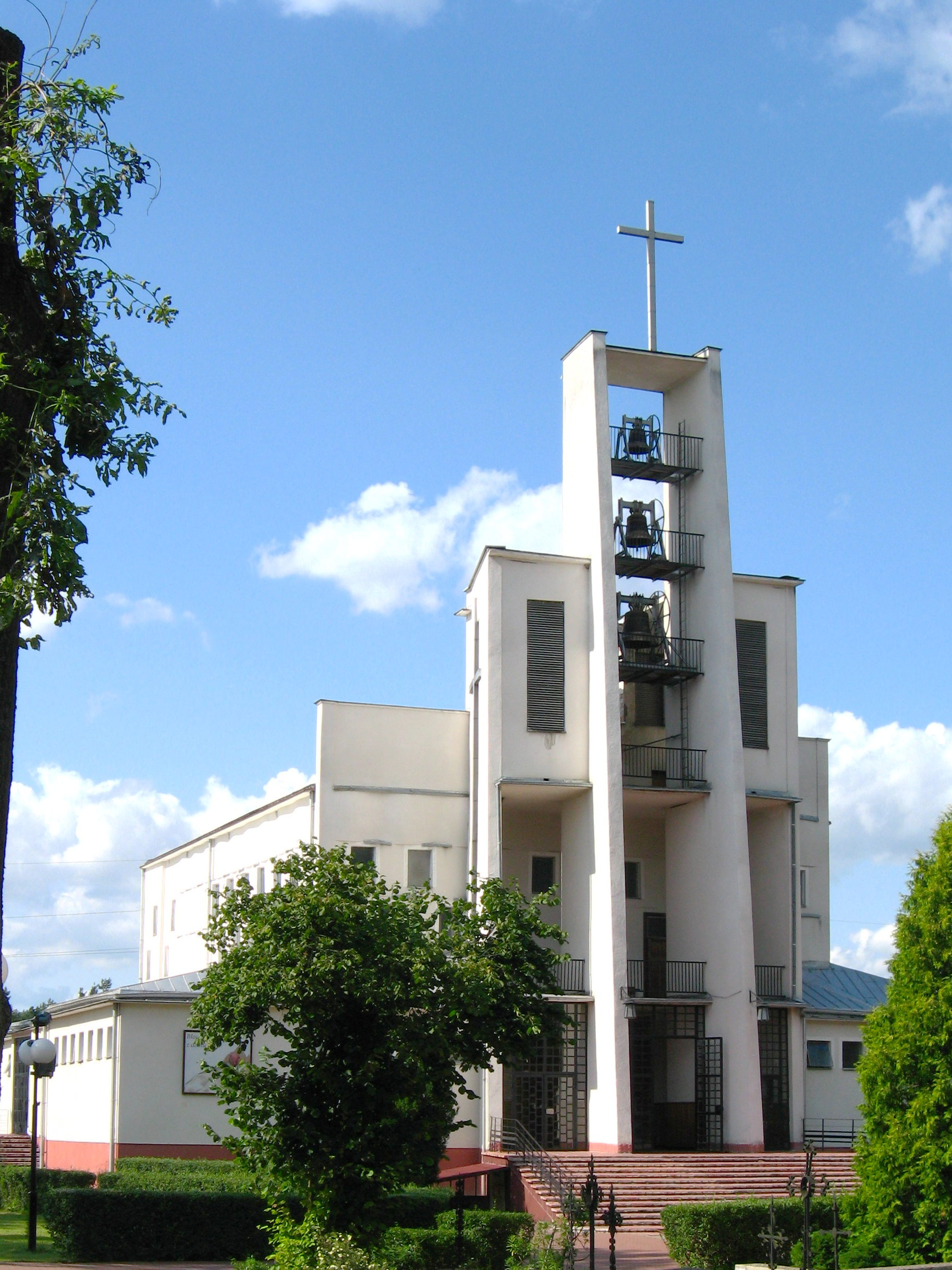 Roman–catholic church of Holy Family from year 1976